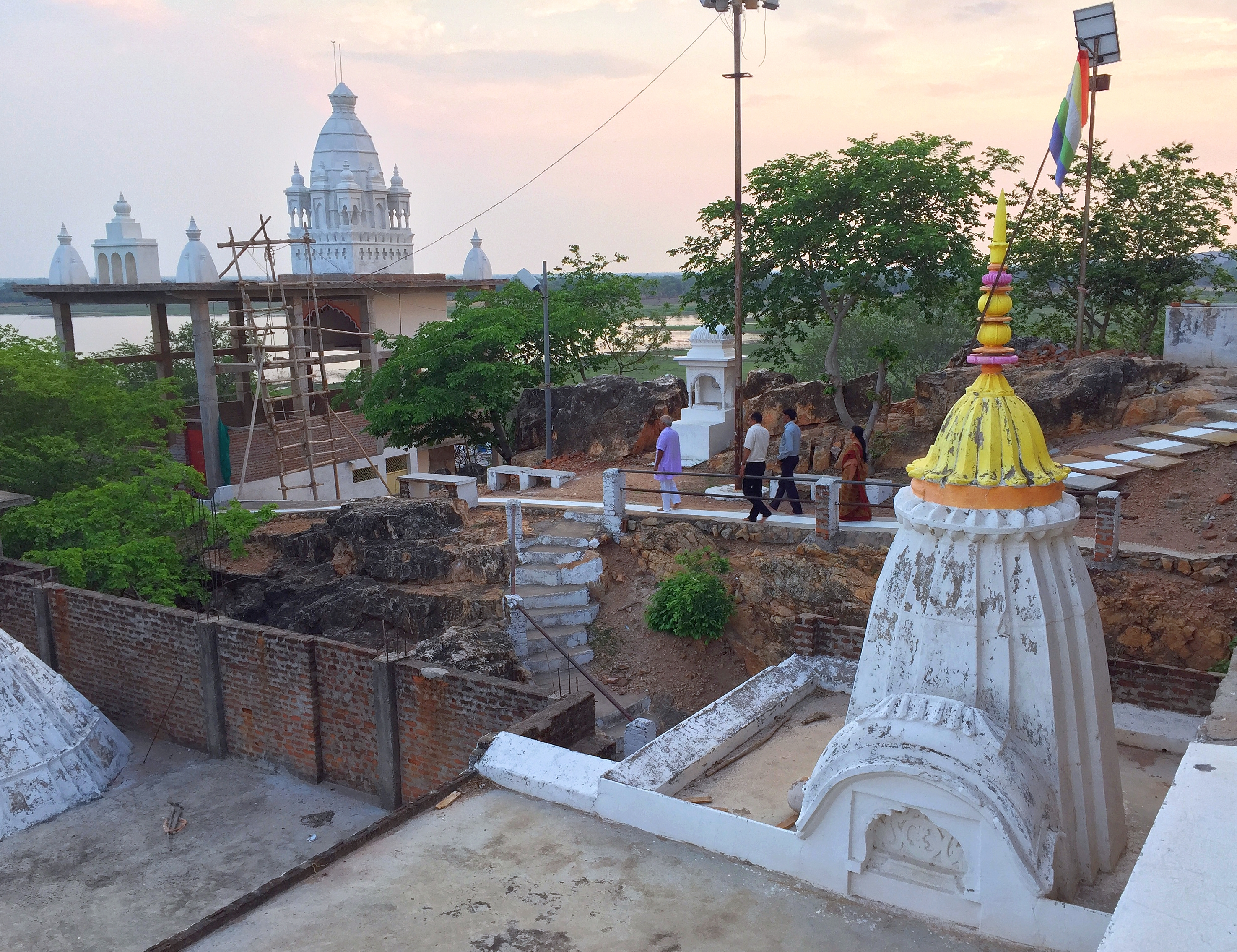 Badagaon Dhasan View from the top